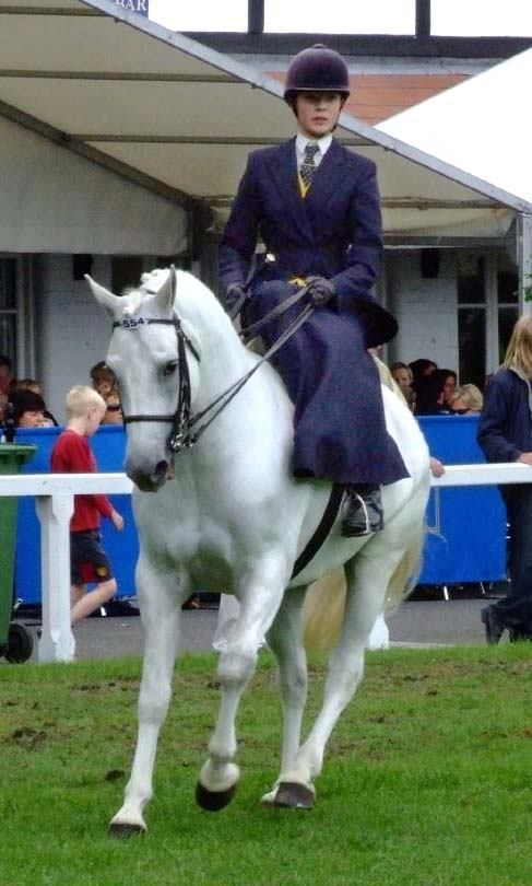 A sidesaddle rider cantering her horse, wearing a modern equestrian helmet for safety. Picture taken at a horse show in Dublin, Republic of Ireland